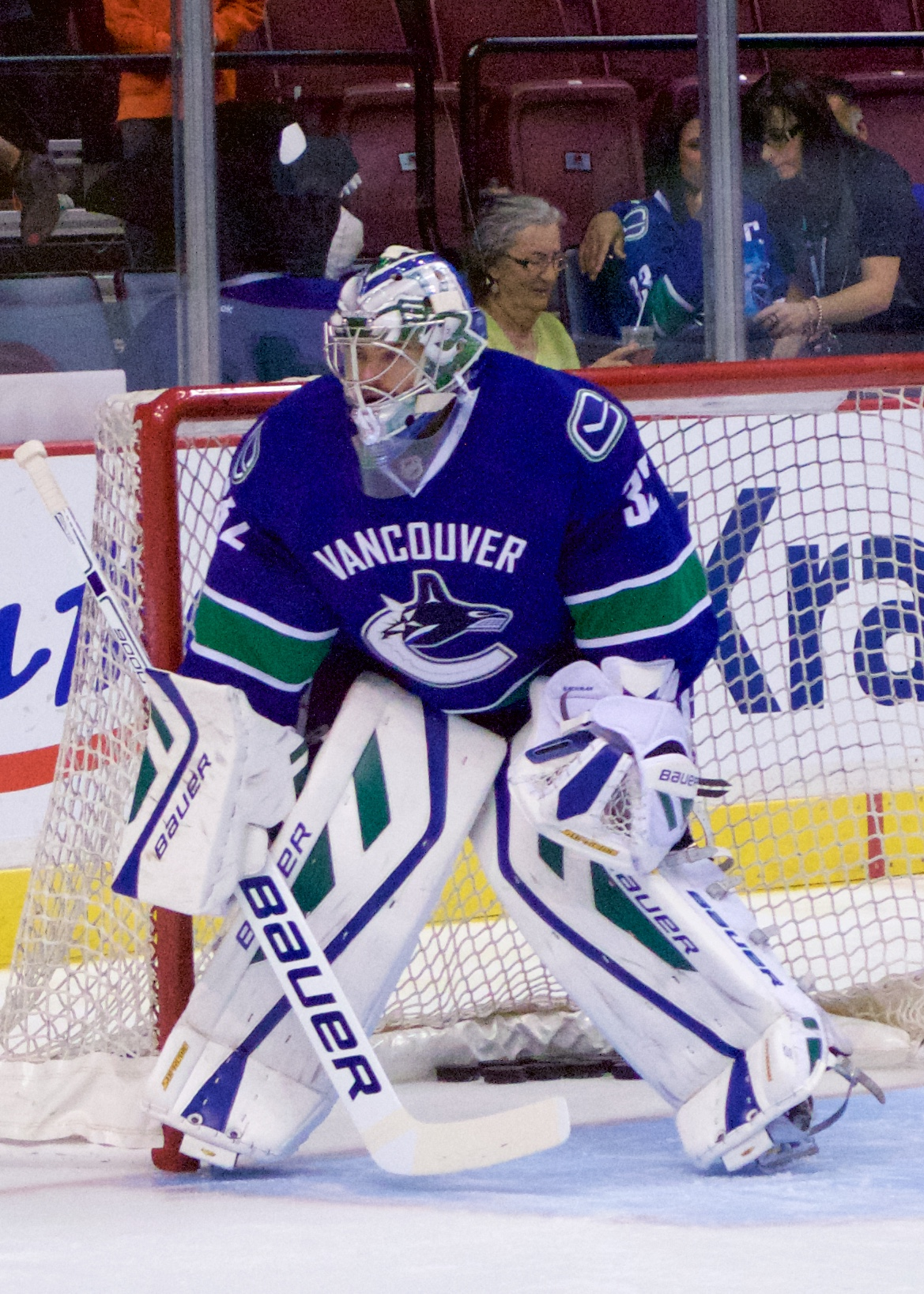 Vancouver Canucks goalie Richard Bachman during pre-game warmup on October 22, 2015.